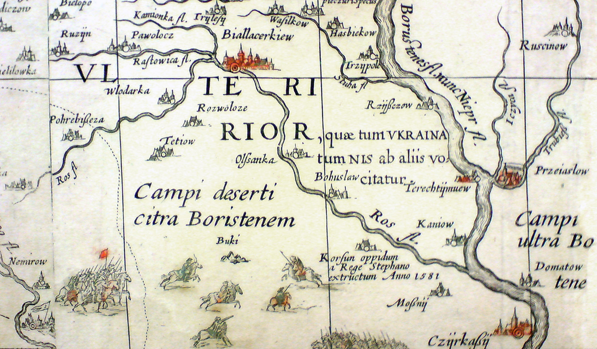 The Ros river in Ukraine on Tomasz Makowski's map from around 1650